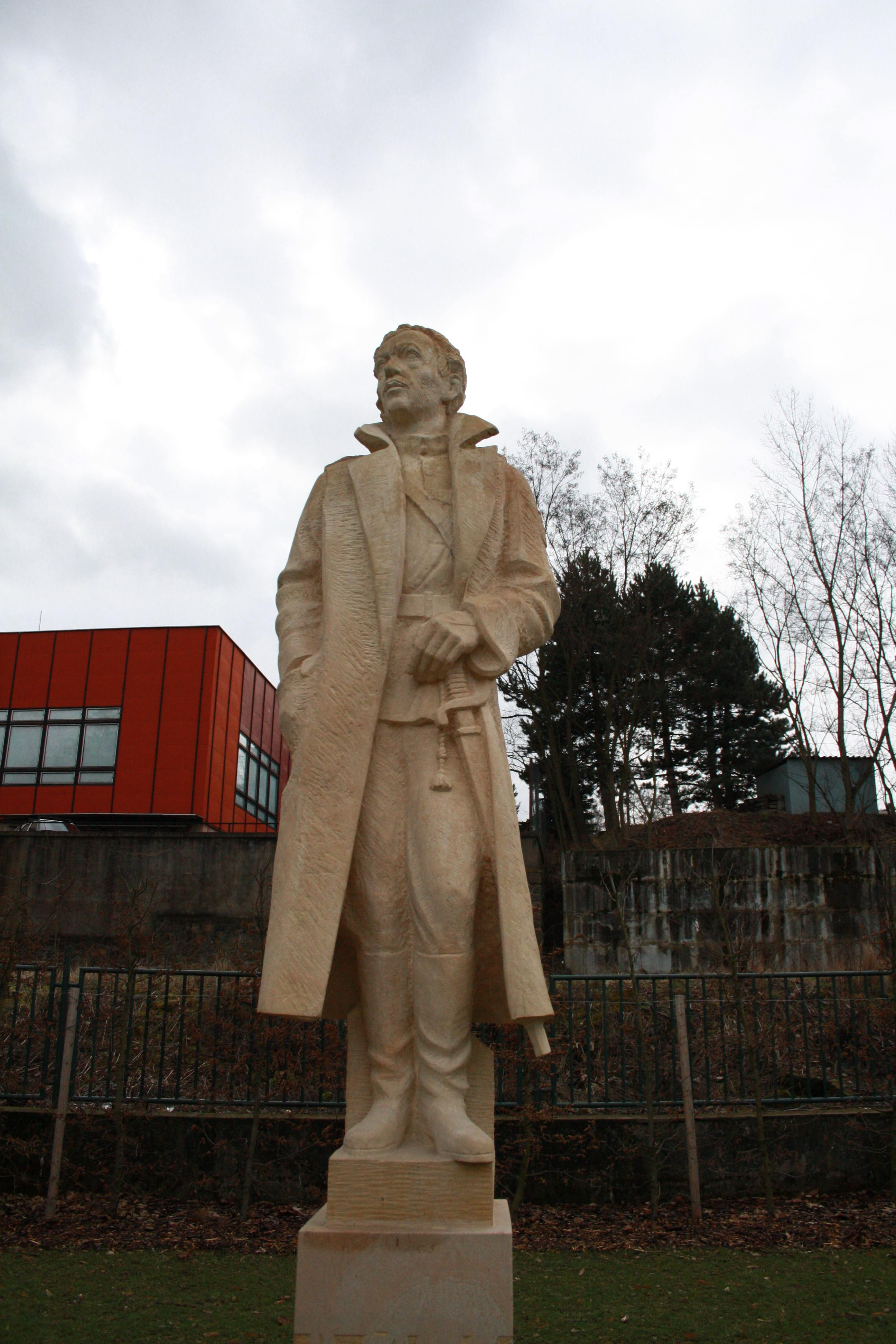 Jaroslav Šlezinger: Statue of Josef Jiří Švec in Třebíč, Czech Republic.